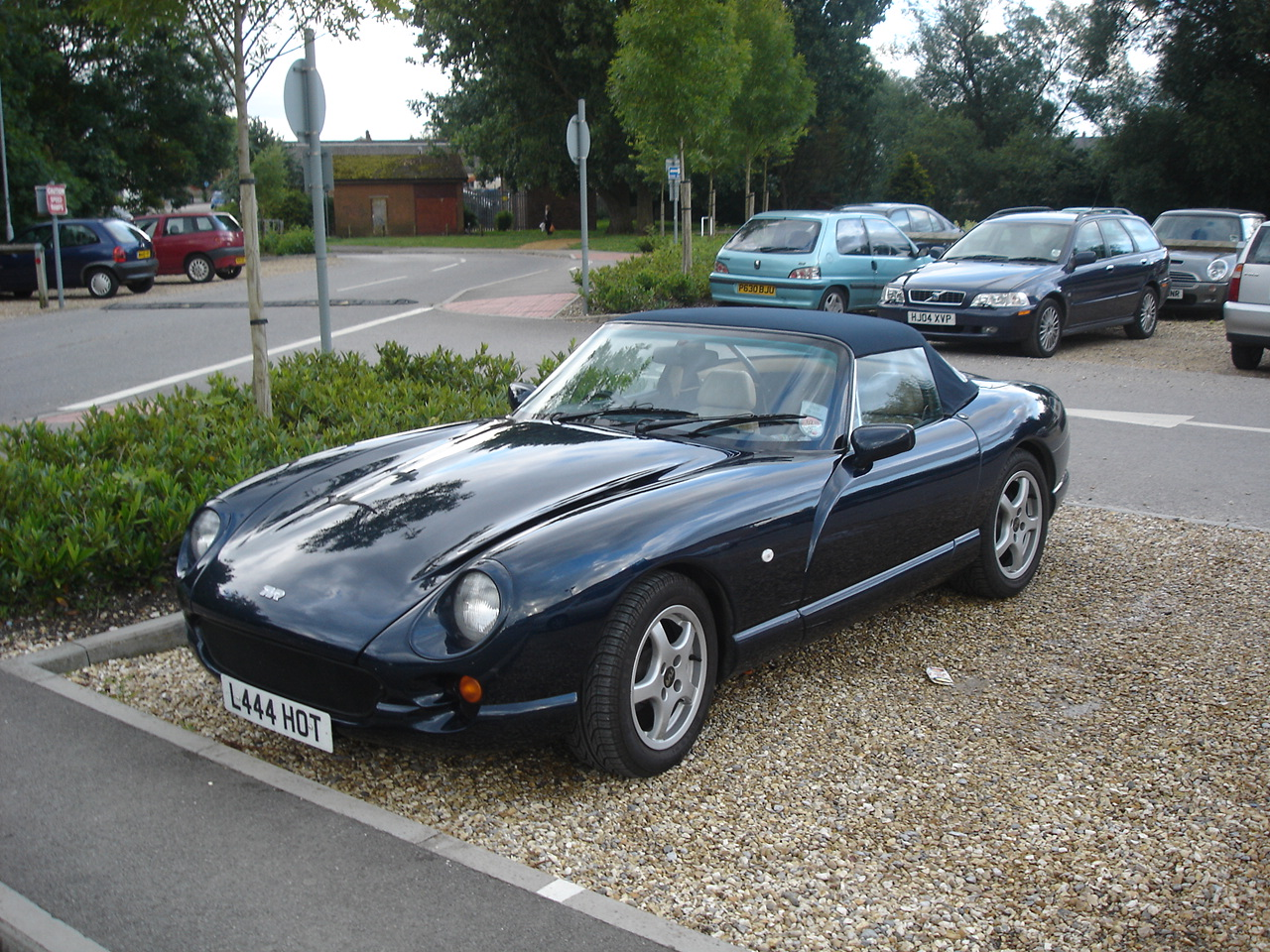 Black TVR Chimaera.